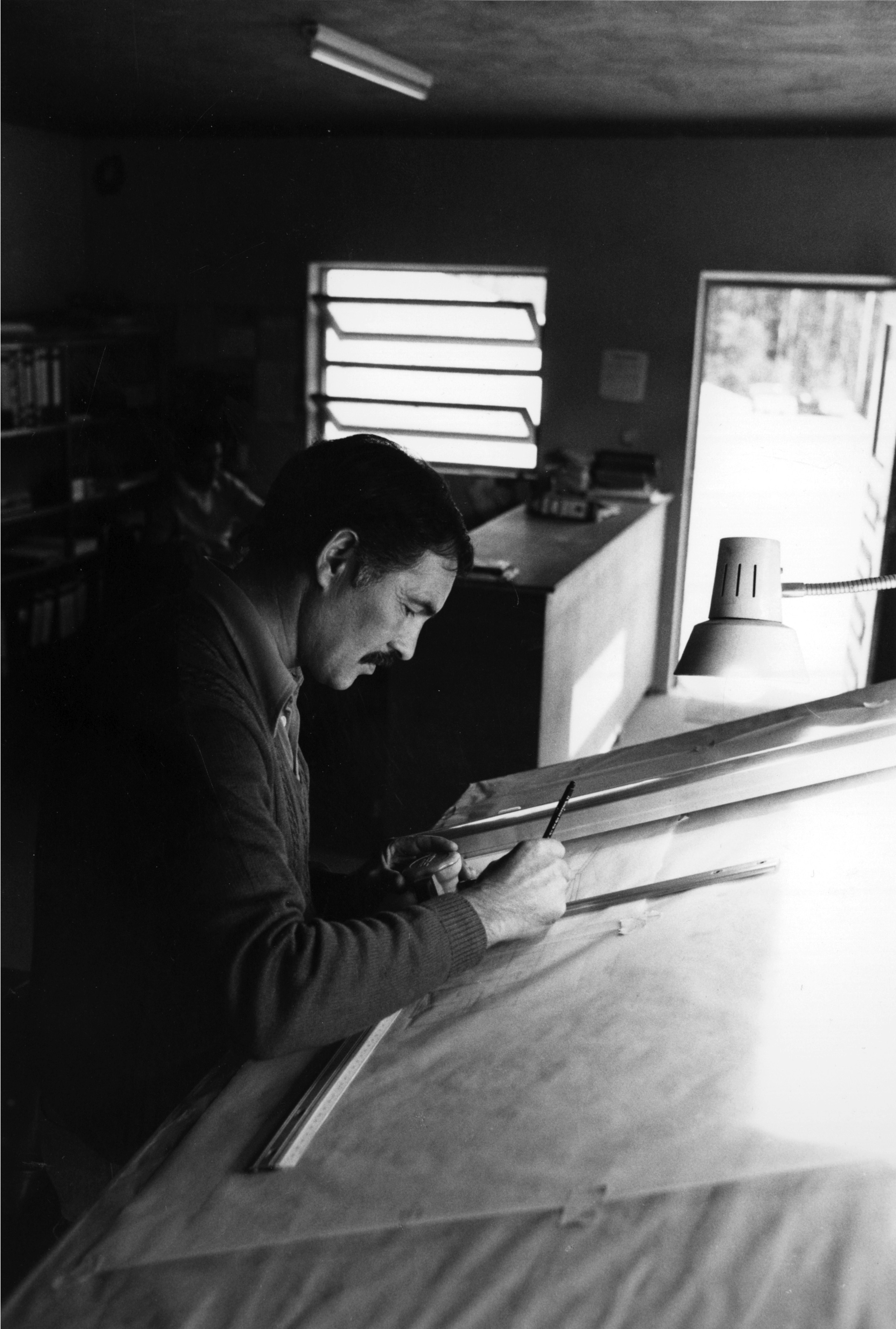 A man is pictured at a drafting table.